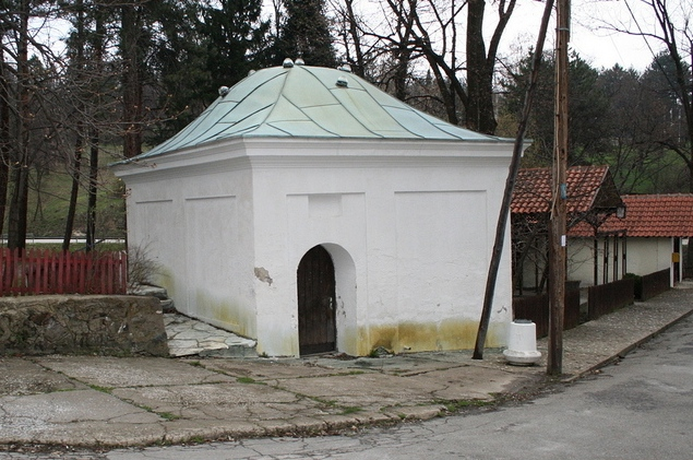 Prince Miloš's hamam in Brestovačka Banja, Bor